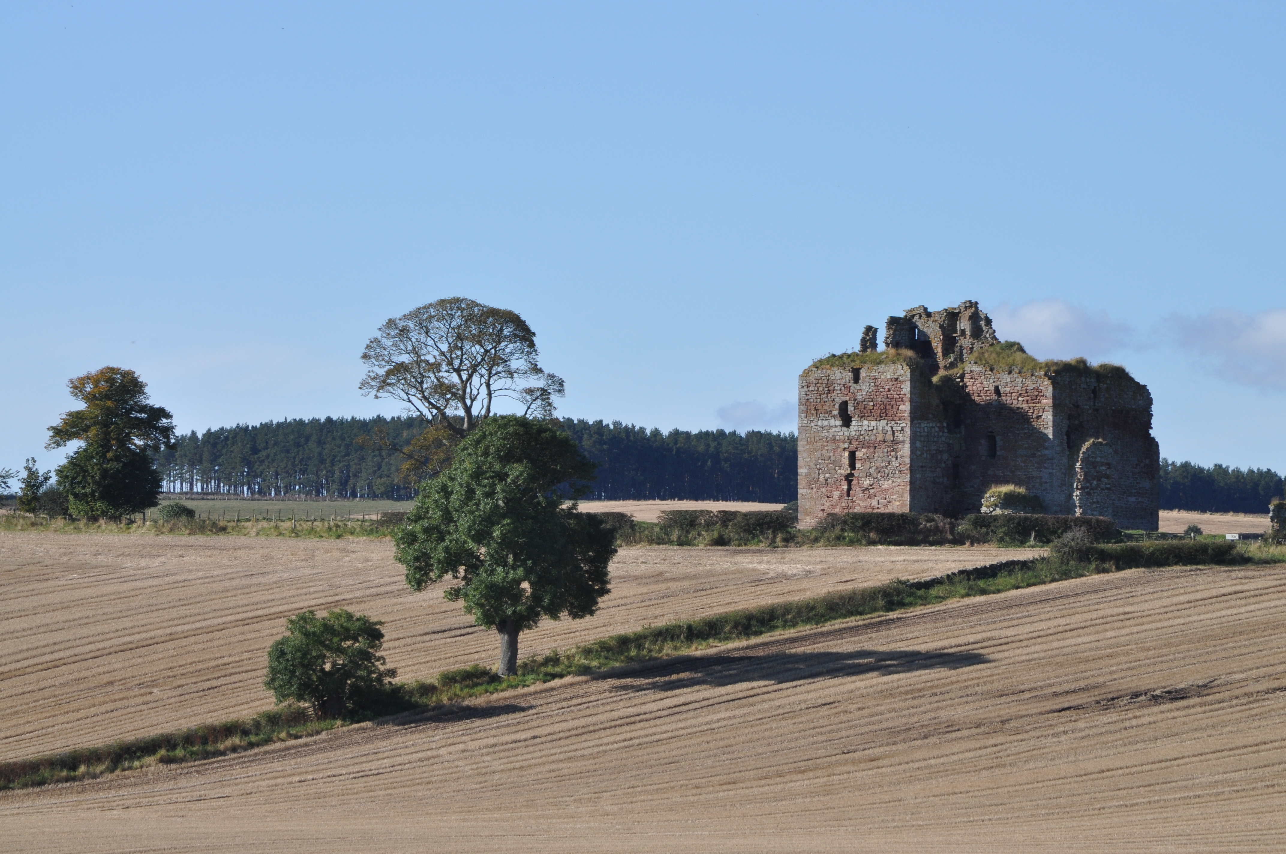 Cessford Castle near Morebattle, once stronghold of the Kerr family.